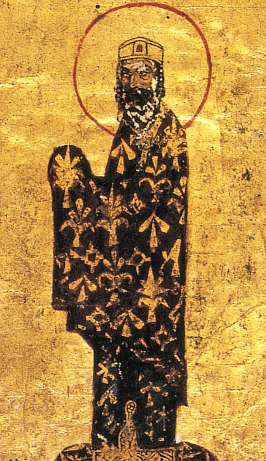 Painting of Alexius I, from a Greek manuscript in the Vatican library